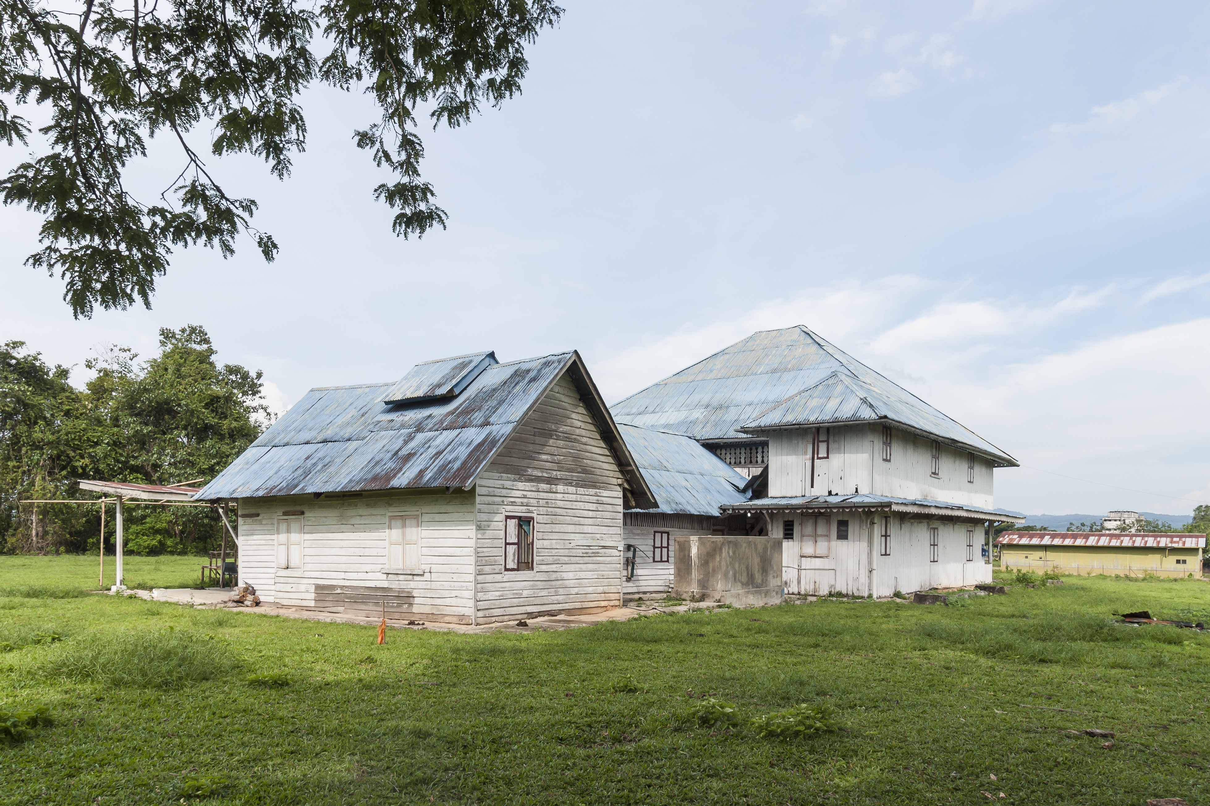 Bingkor, Sabah: Rumah Besar Sedomon